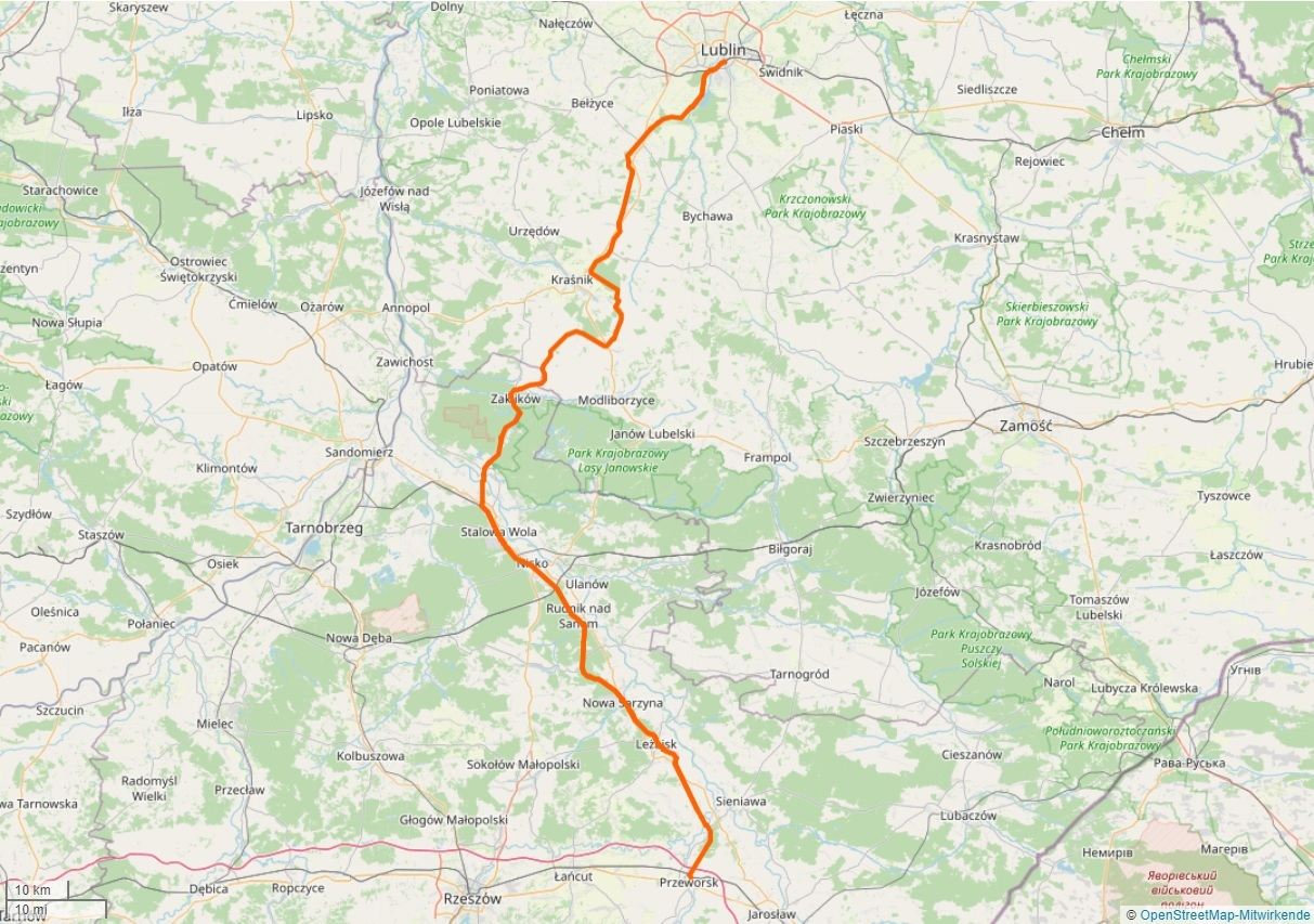 Narrow Gauge Railway Przeworsk–Dynów